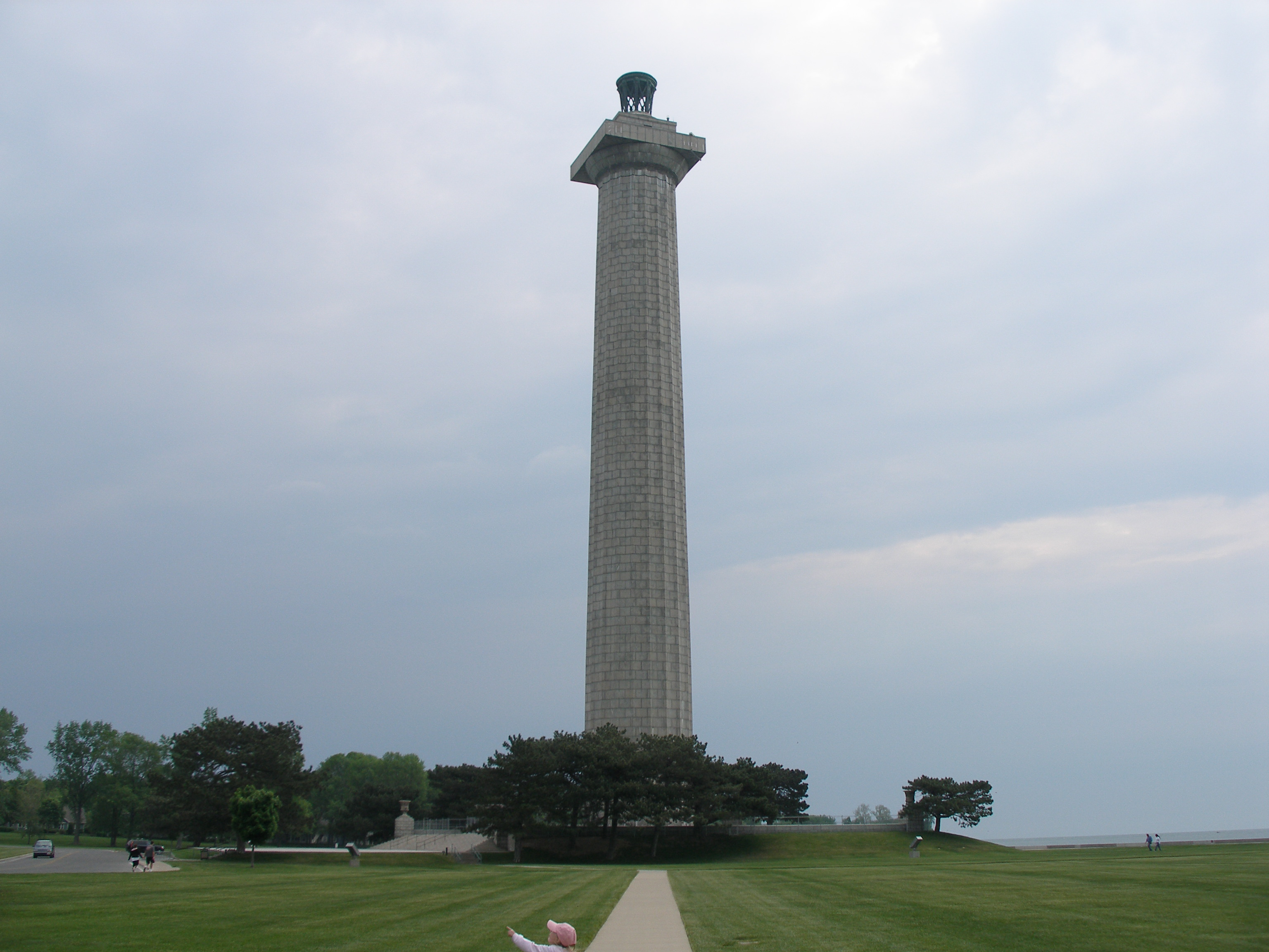 The 352-foot Perry's Victory and International Peace Memorial in Put-in-Bay Village on South Bass Island, Ottawa County, Ohio